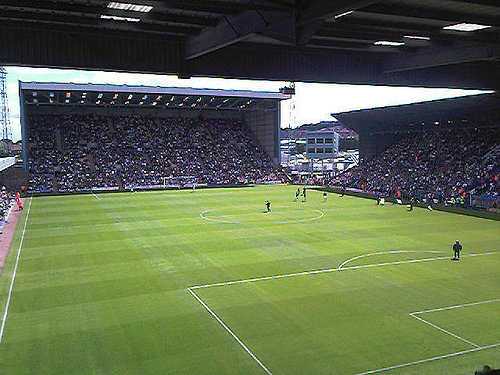 View from Cowsheds at Prenton Park.